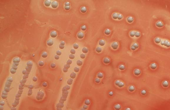 Staphylococcus aureus colonies on blood agar. Note the golden yellow pigment and beta hemolysis around it.